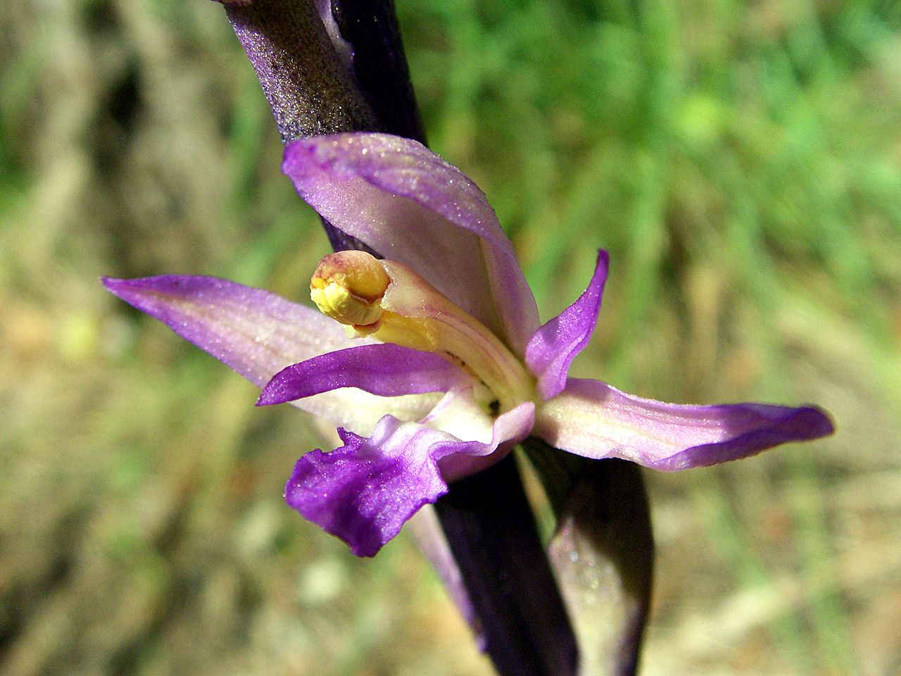 Limodorum abortivum - single flower